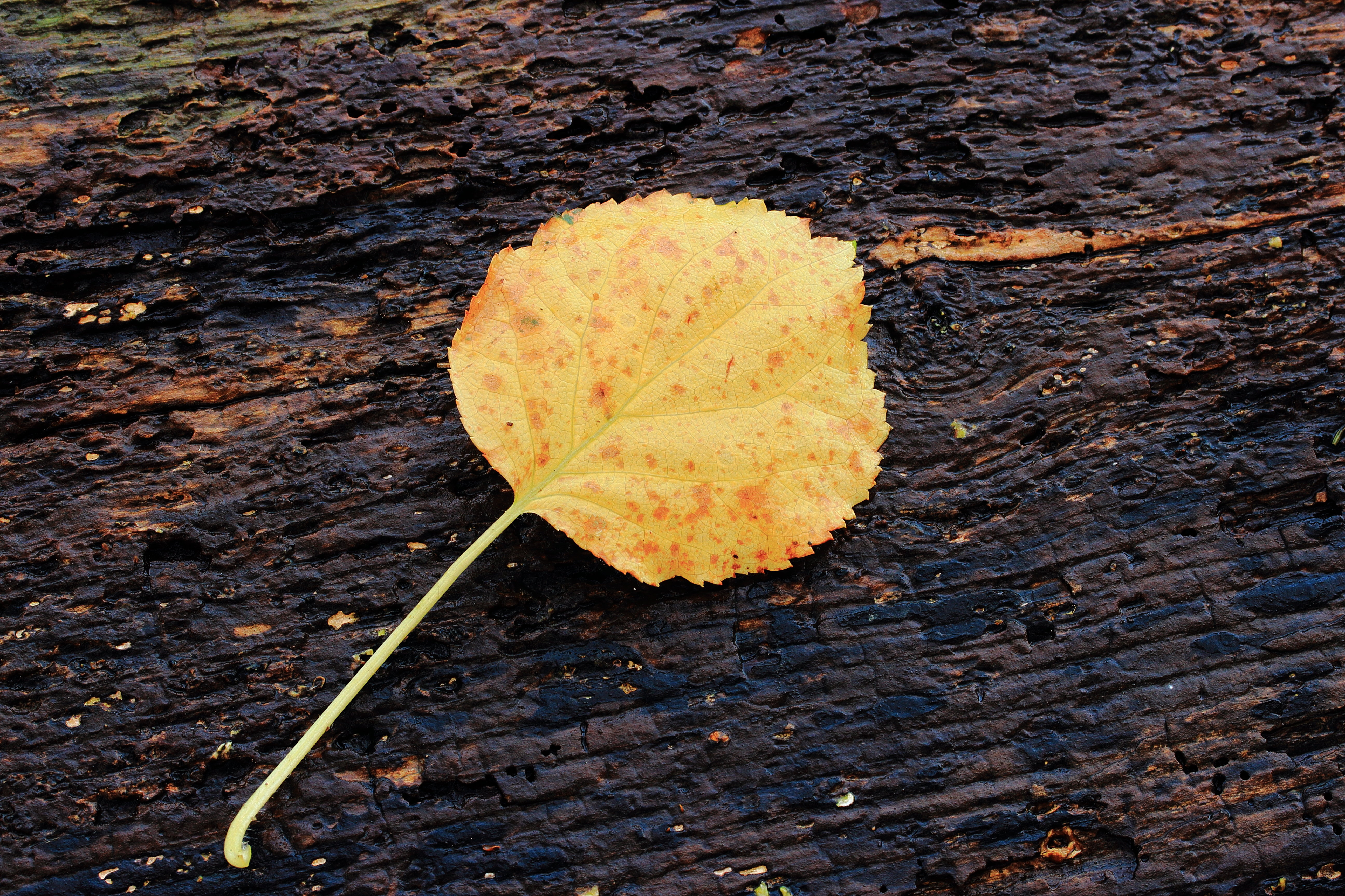 Leafs climbing hydrangea Hydrangea anomala in autumn.